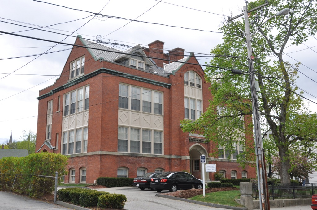 The former Thompson School in Webster, Massachusetts (converted to residential use).